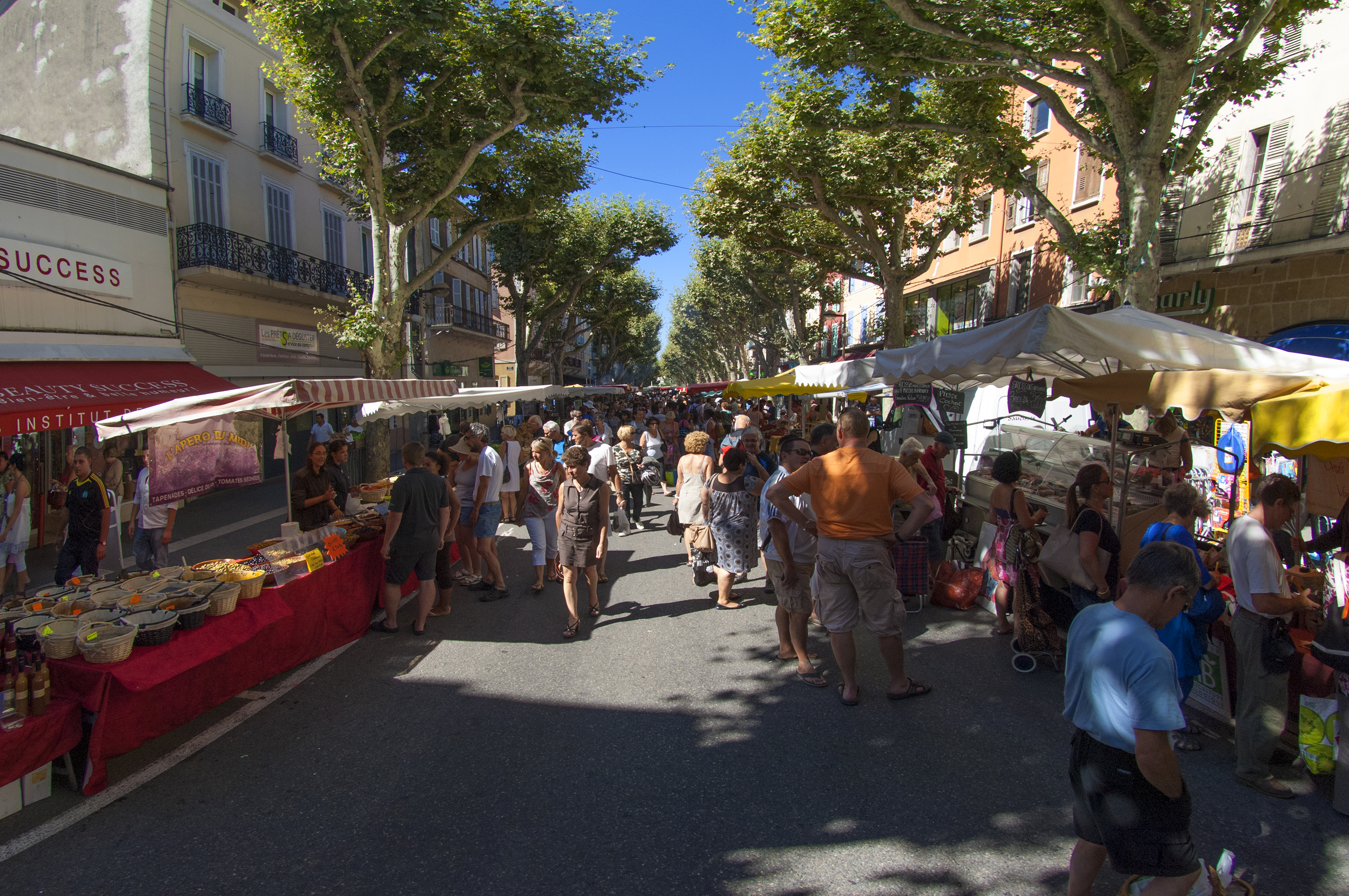 Provencal Digne les Bains summer market, Alpes de Haute Provence, France